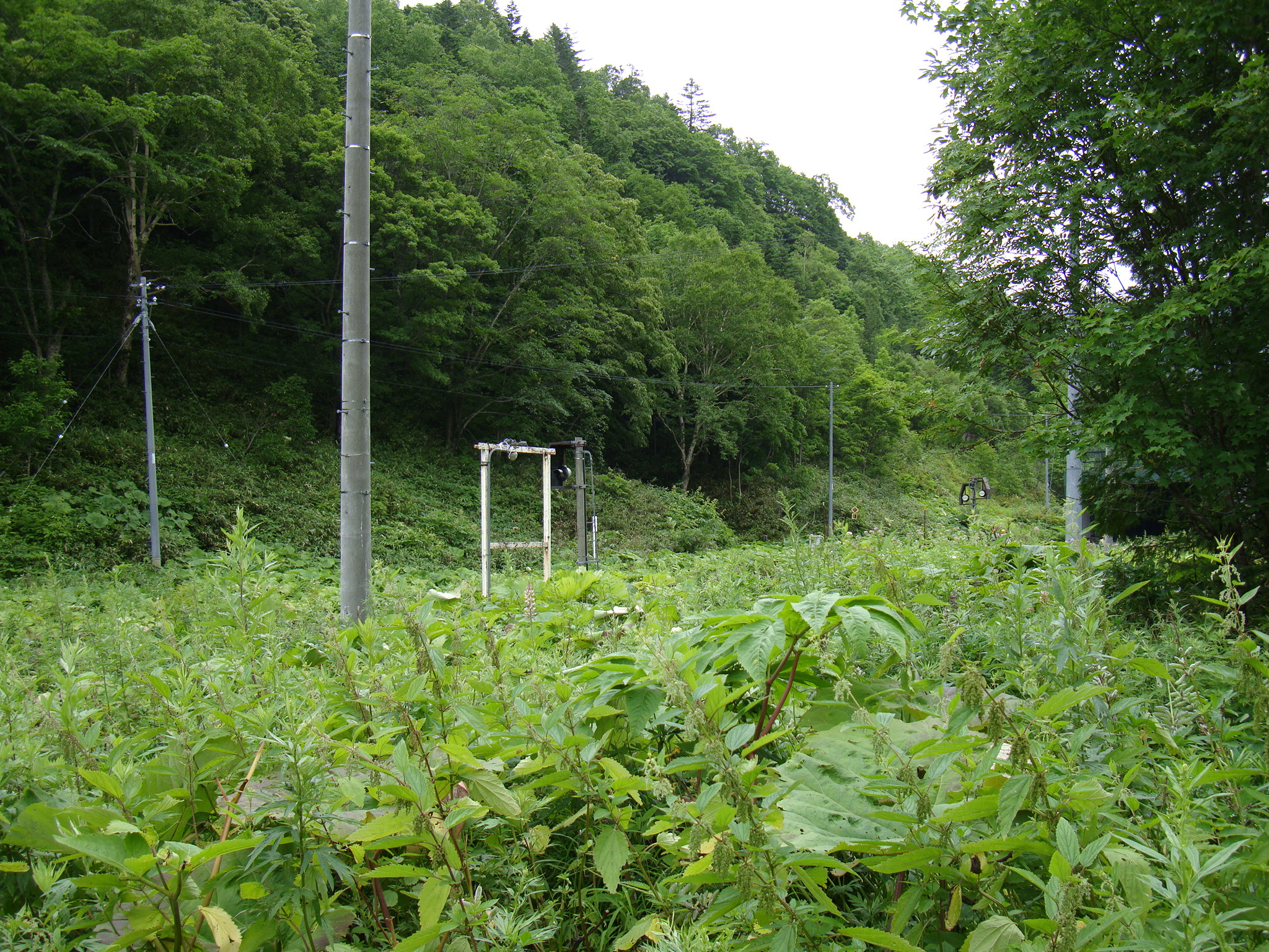 Kamikoshi Signal Base